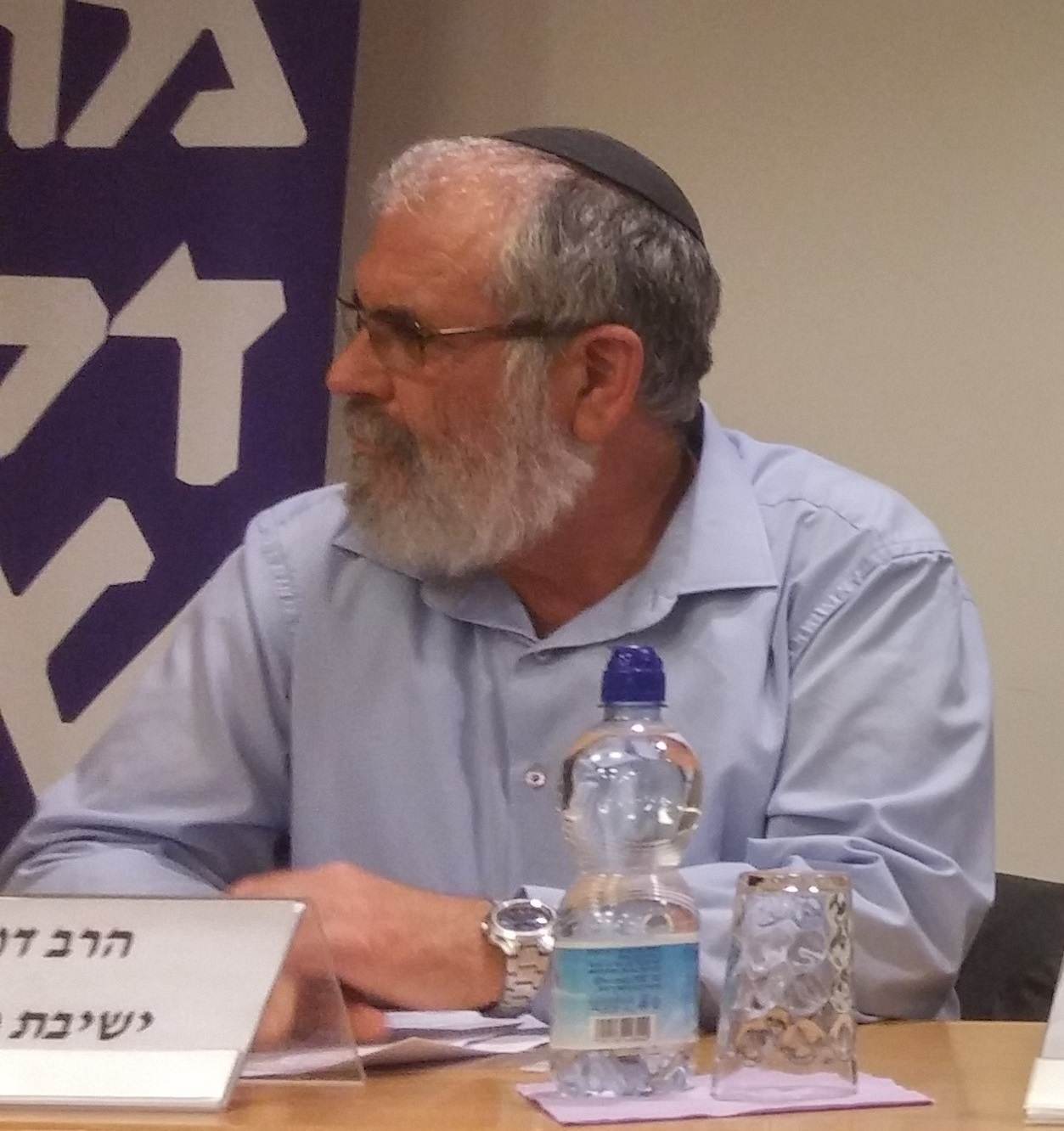 David Bigman